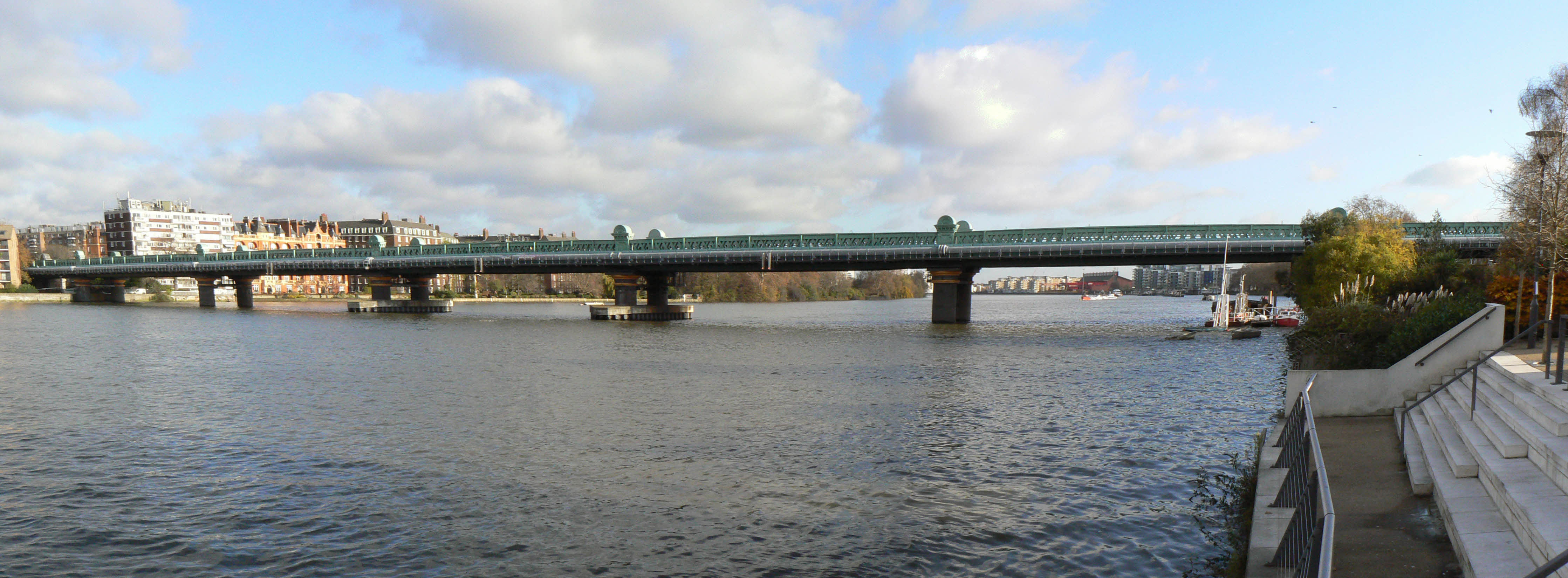 Fulham Railway Bridge, London. The image is a panorama from 3 photos, and has been edited to remove an apparent curve in the bridge deck.